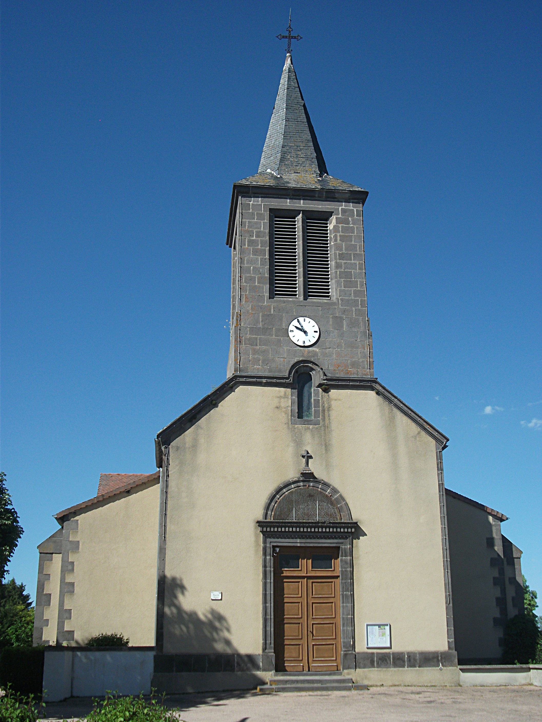 Church of Saint-Pardoux, Puy-de-Dôme, Auvergne-Rhône-Alpes, France. [18446]